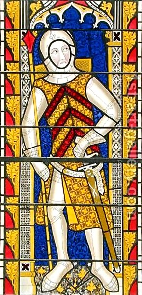 Gilbert de Clare, 3rd Earl of Gloucester 1243-95, after a stained glass window of c.1340 in Tewkesbury Abbey Church